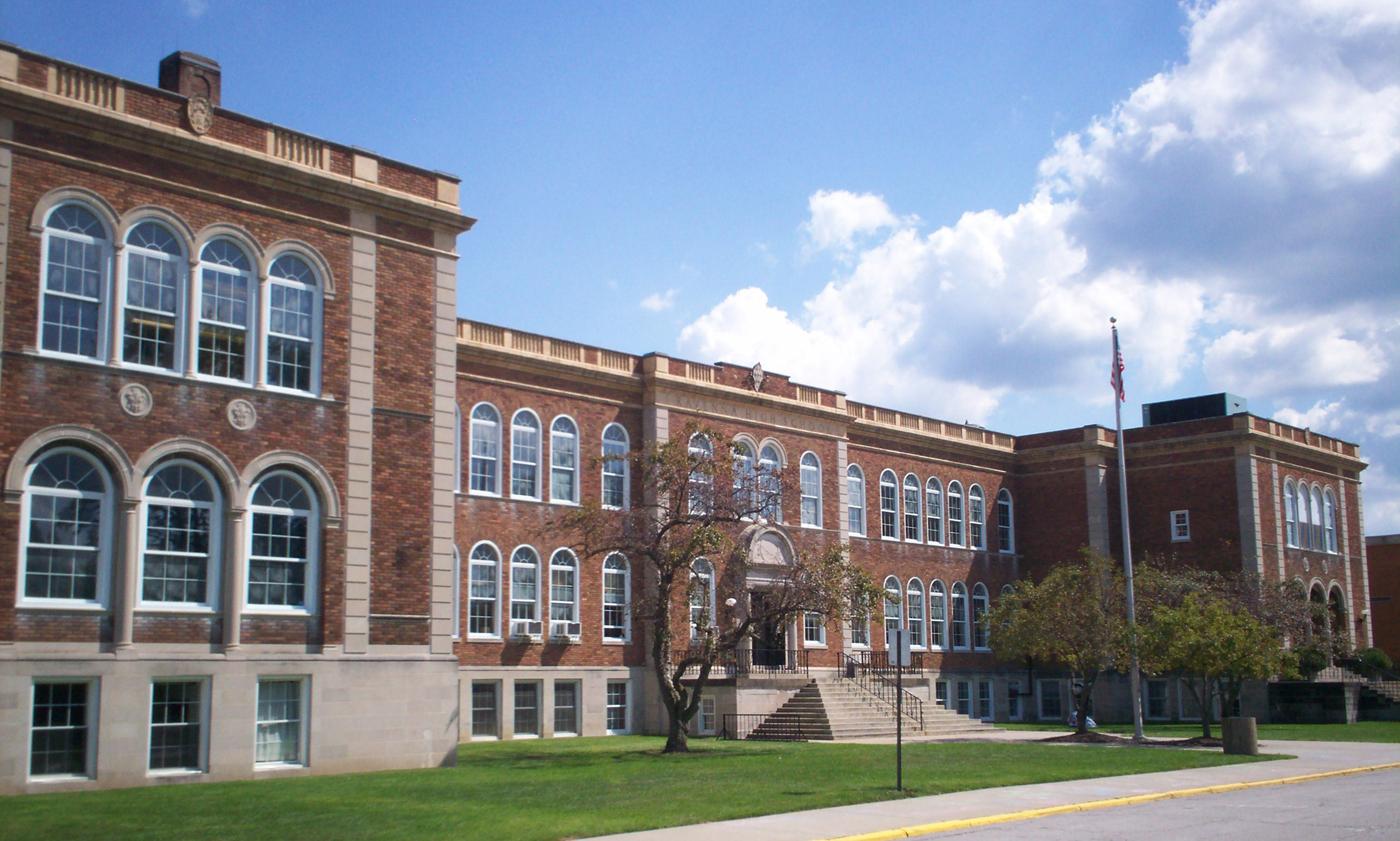 Front of the previous home of Ravenna High School in Ravenna, Ohio. This section of the building was the original portion of the school and opened in 1923. It served as the high school until 2010 and was demolished in late 2012.